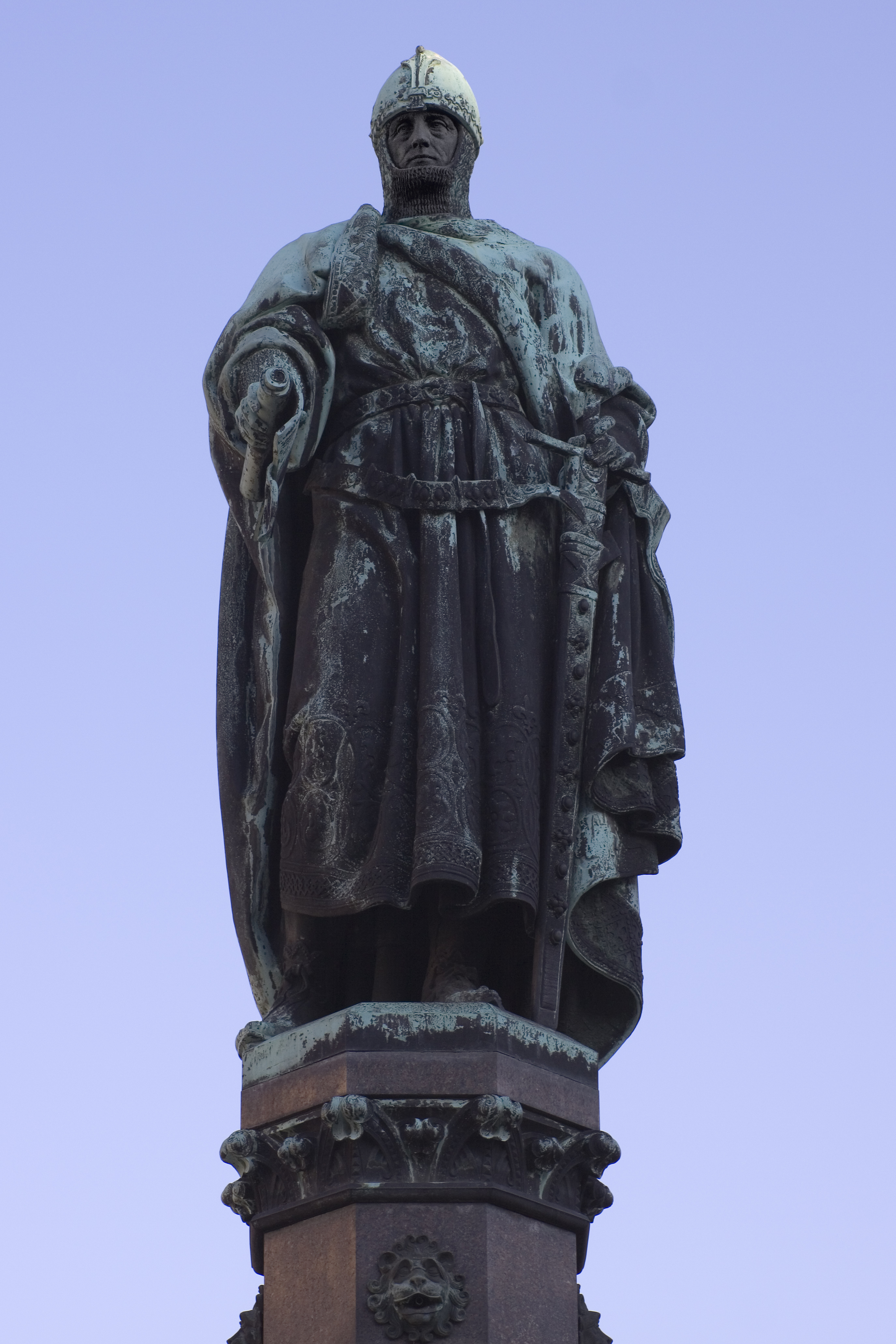 Otto II, Margrave of Meissen, monument in Freiberg